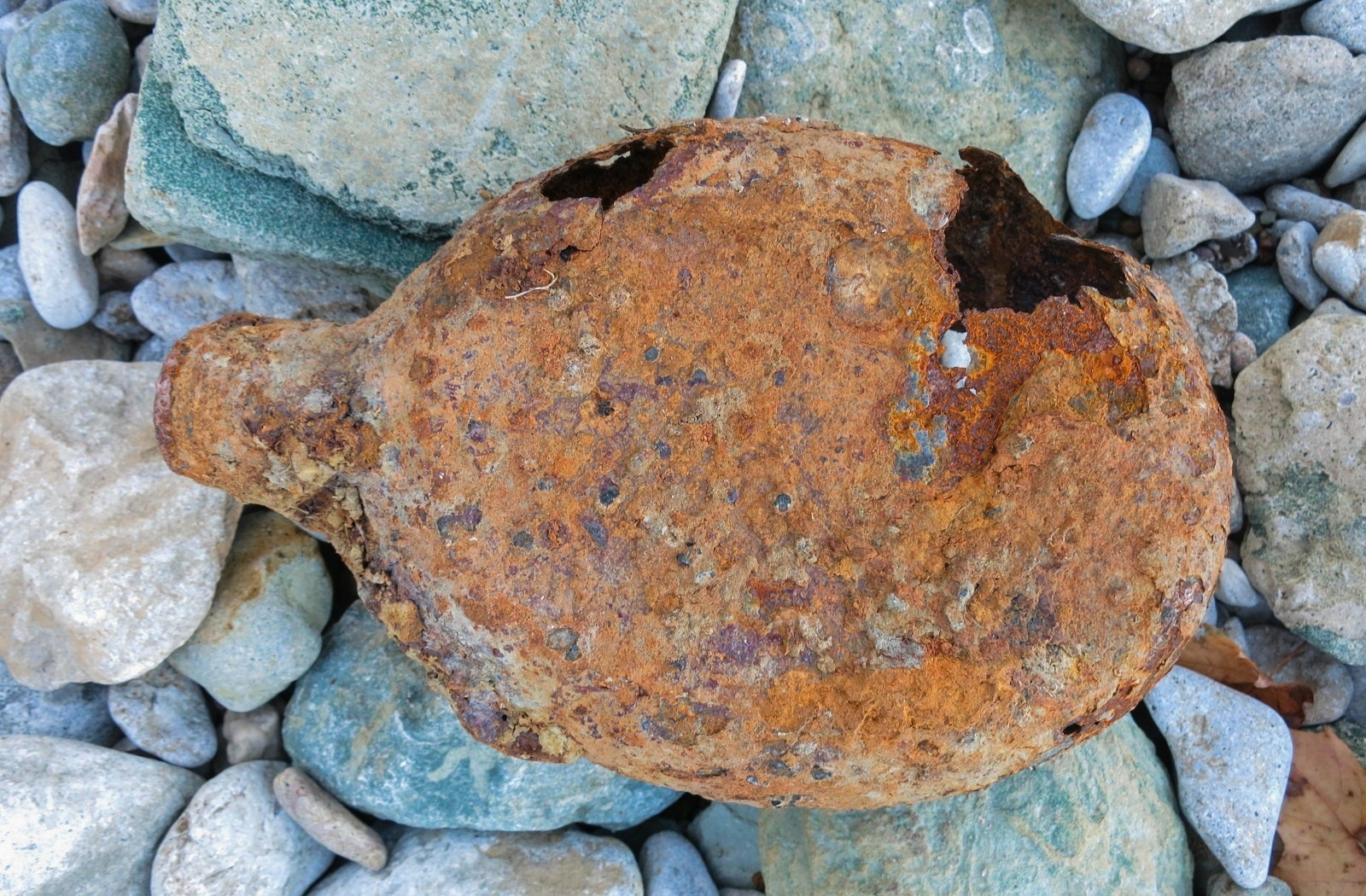 Rusty bottle on Voka beach (Ida-Viru County, Estonia)